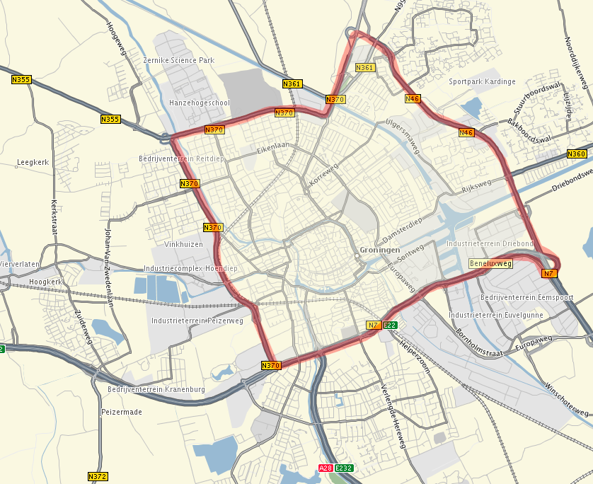 Ringweg Groningen 2010 - source of this map is NavteQ maps and traffic